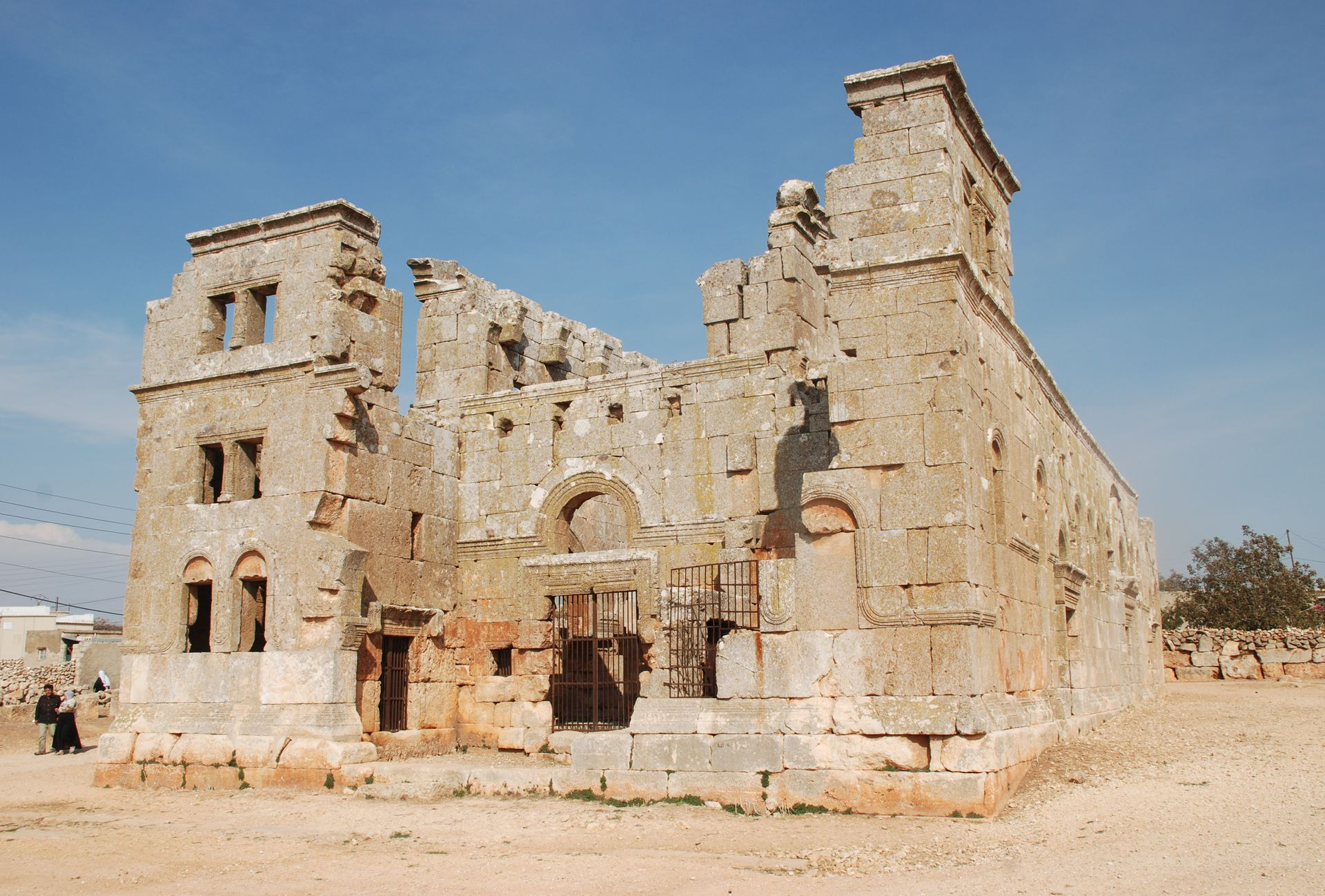 Qalb Loze, basilica in Syria, dead cities. From west